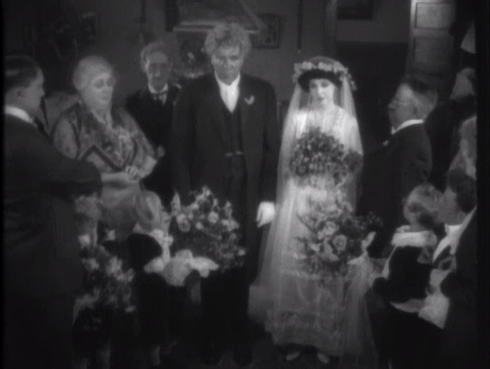 Scenography for the movie Greed. 1924.